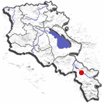 Location map for Sisian, Armenia.